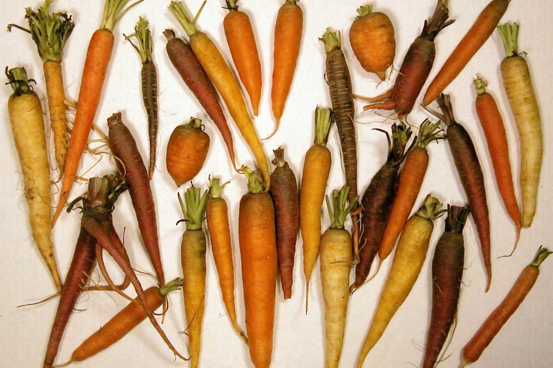 Carrot diversity